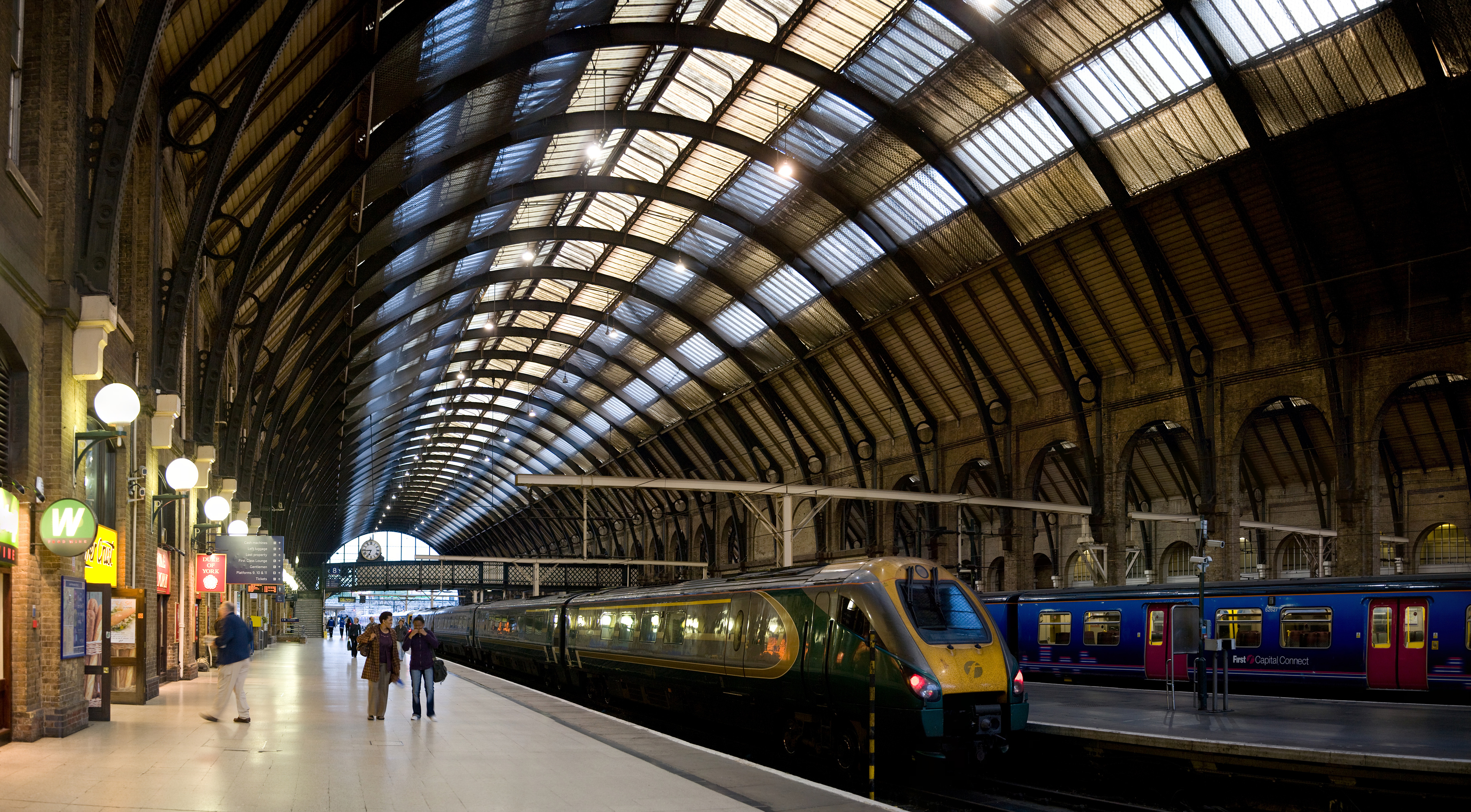 A 2x3 segment panoramic view of Kings Cross Railway Station in London, England. Taken by myself with a Canon 5D and 24-105mm f/4L IS lens.